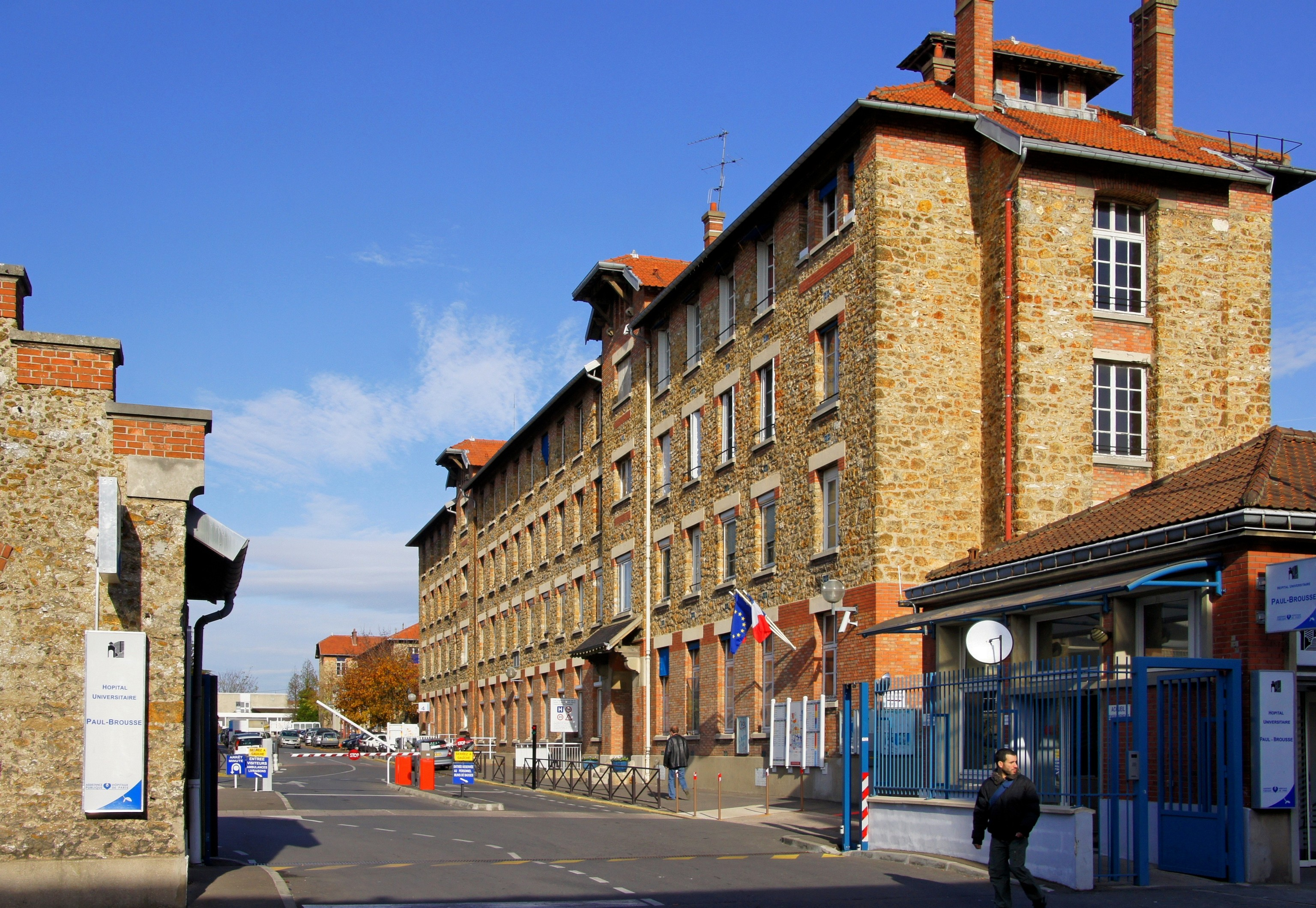 Paul-Brousse Hospital main entrance in Villejuif (Val-de-Marne).